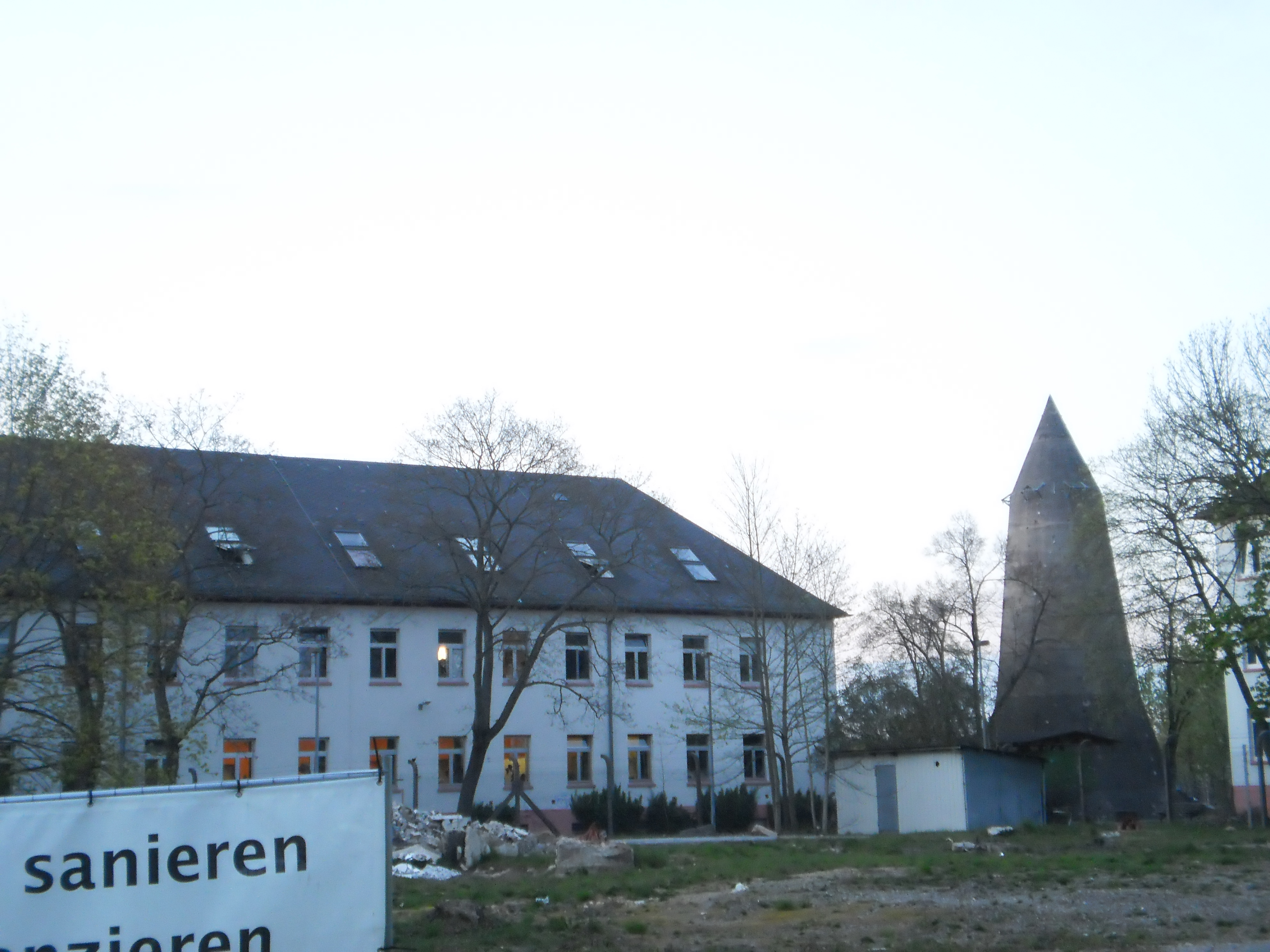 This is not a rocket to moon, but an old old world war II German ant hill bunker and sign 'Sanieren' at a fence. A place to build new appartements for students and other people, new and renovated older military houses to live in Giessen. Photo in April 2017. ↓Photo One year later↓